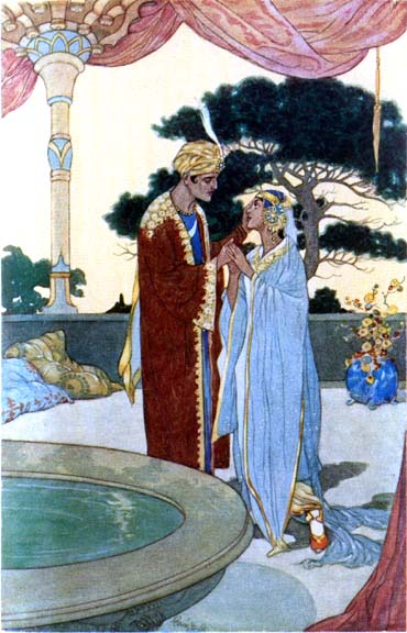 The stories for Arabian Nights Entertainments were published by "Longmans, Green, and Co., London, in 1898, by Andrew Lang (1844-1912). The Color Illustrations are by Rene Bull (1870-1946) the lager Black & white images are by Henry Justice Ford (1872-1941)